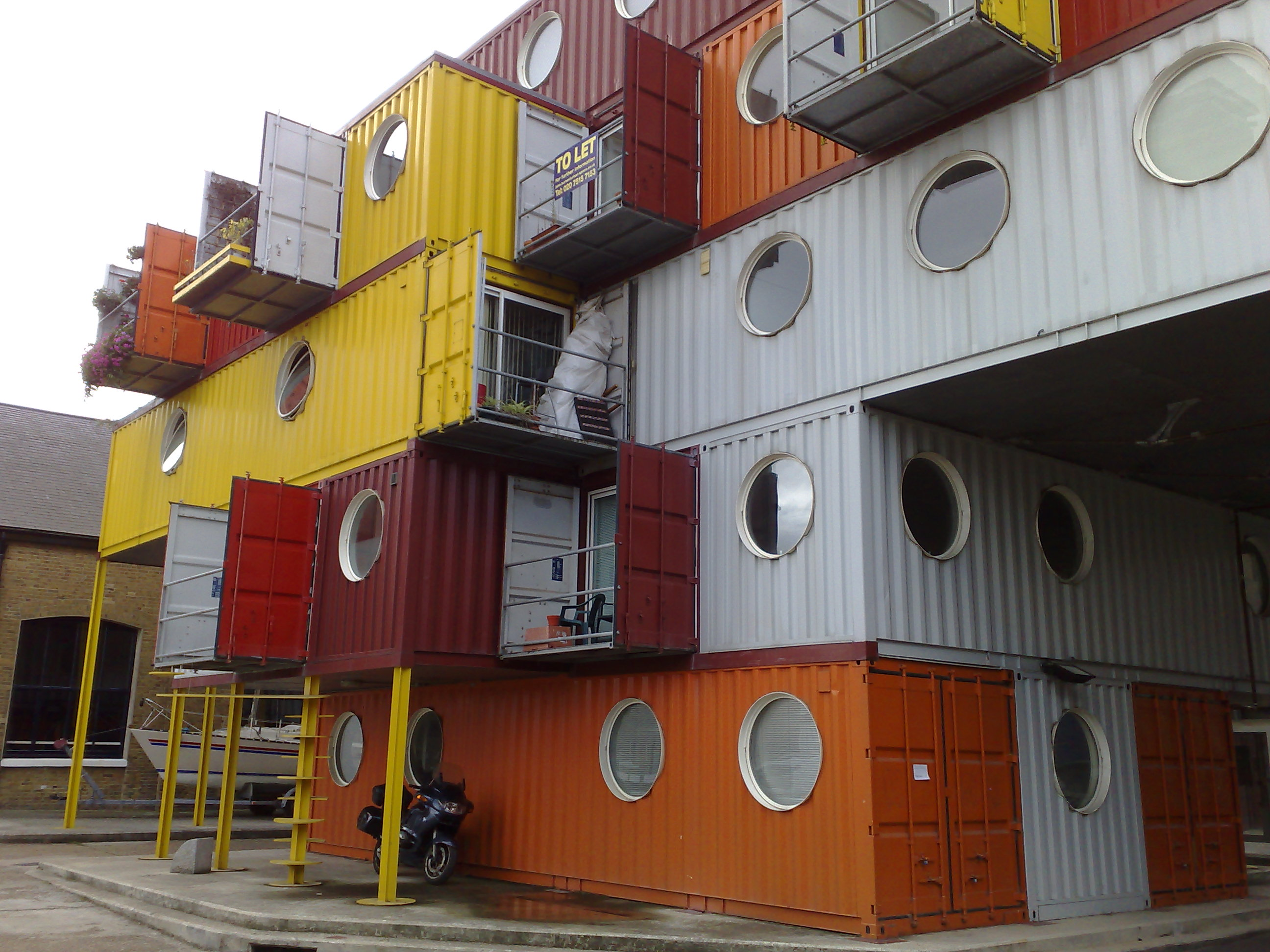 Containers building, see also container-city-one